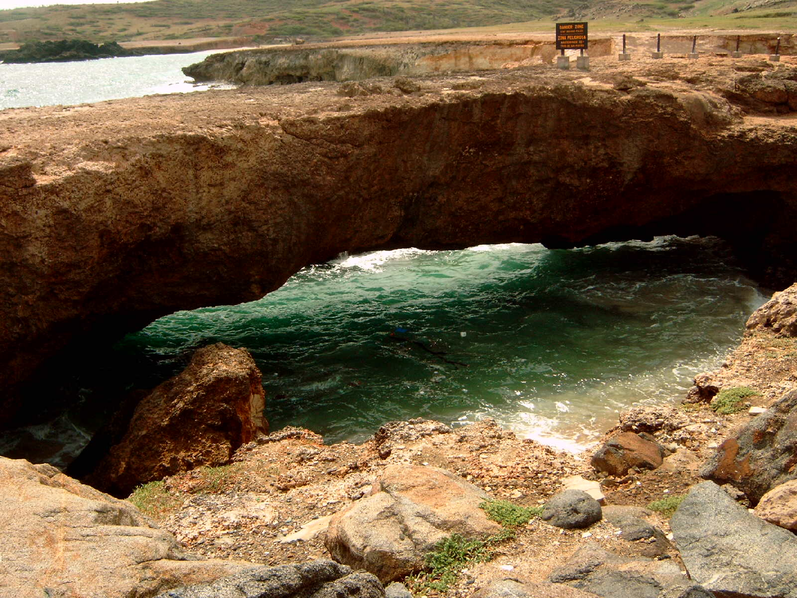 Aruba - a natural bridge